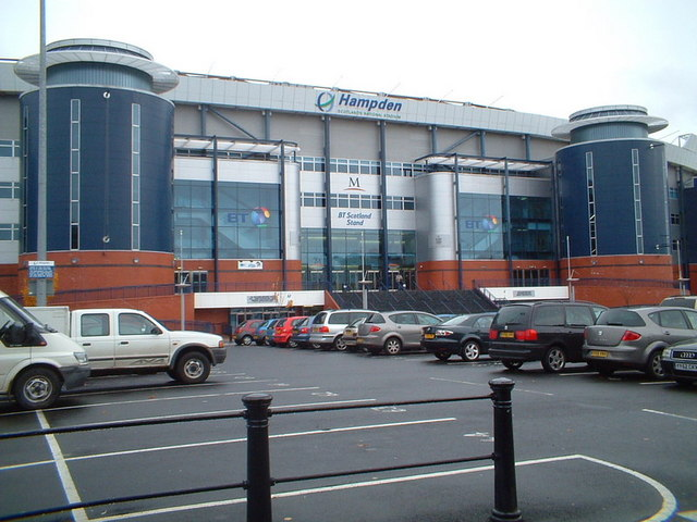 Hampden Park entrance Central view of exterior from south.